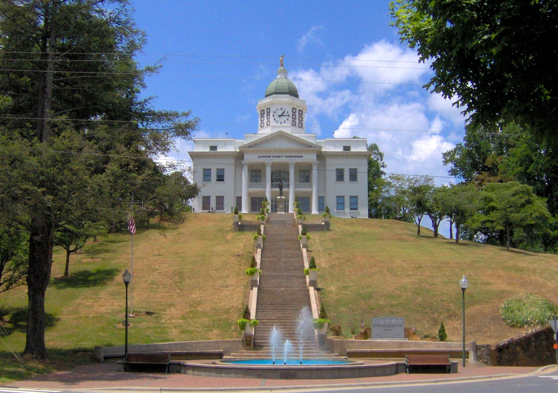 Jackson County Courthouse in Sylva, North Carolina, USA. Situated atop a hill overlooking the town, the courthouse is popular with photographers.